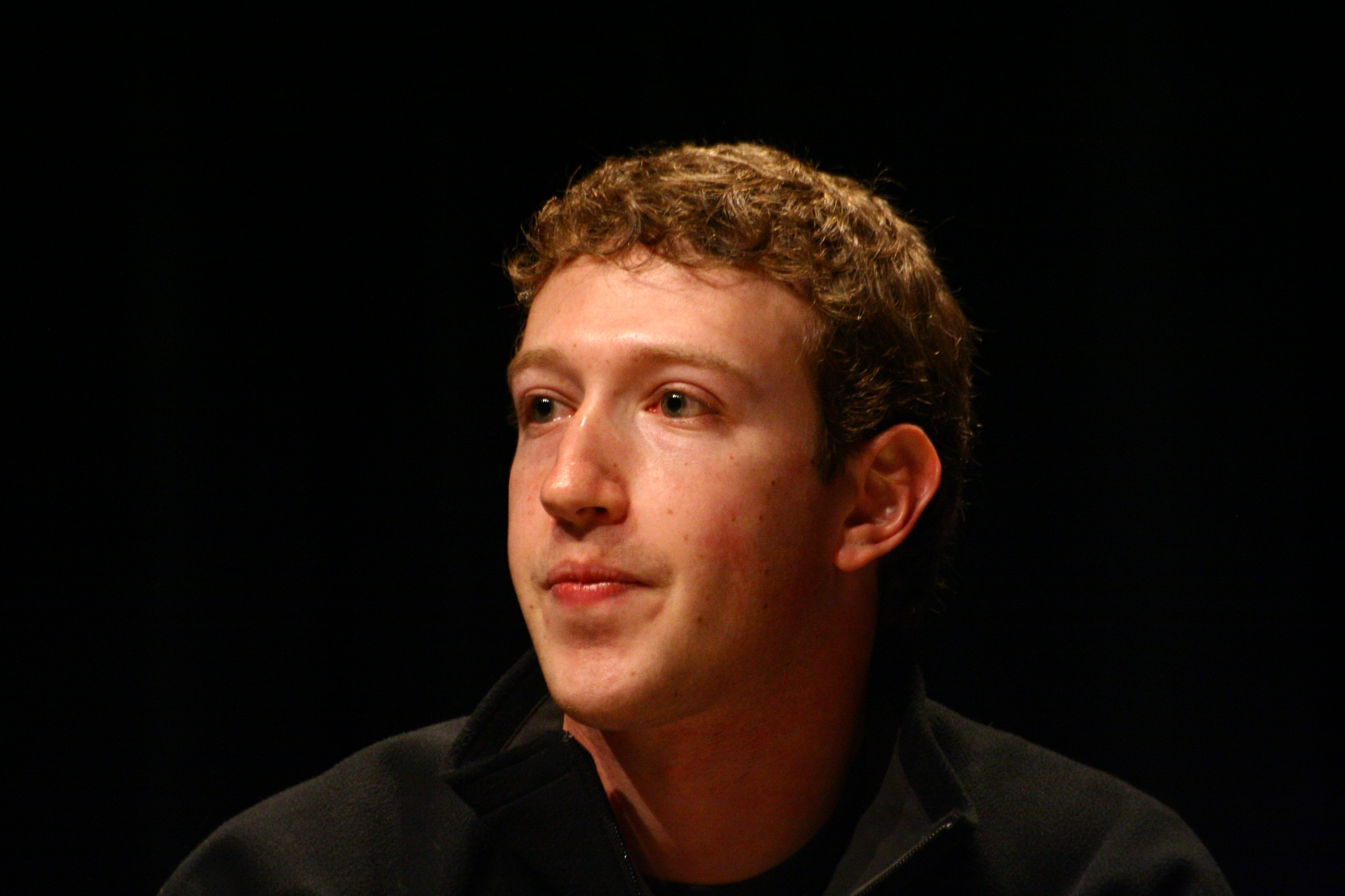 Mark Zuckerberg at South by Southwest in 2008.